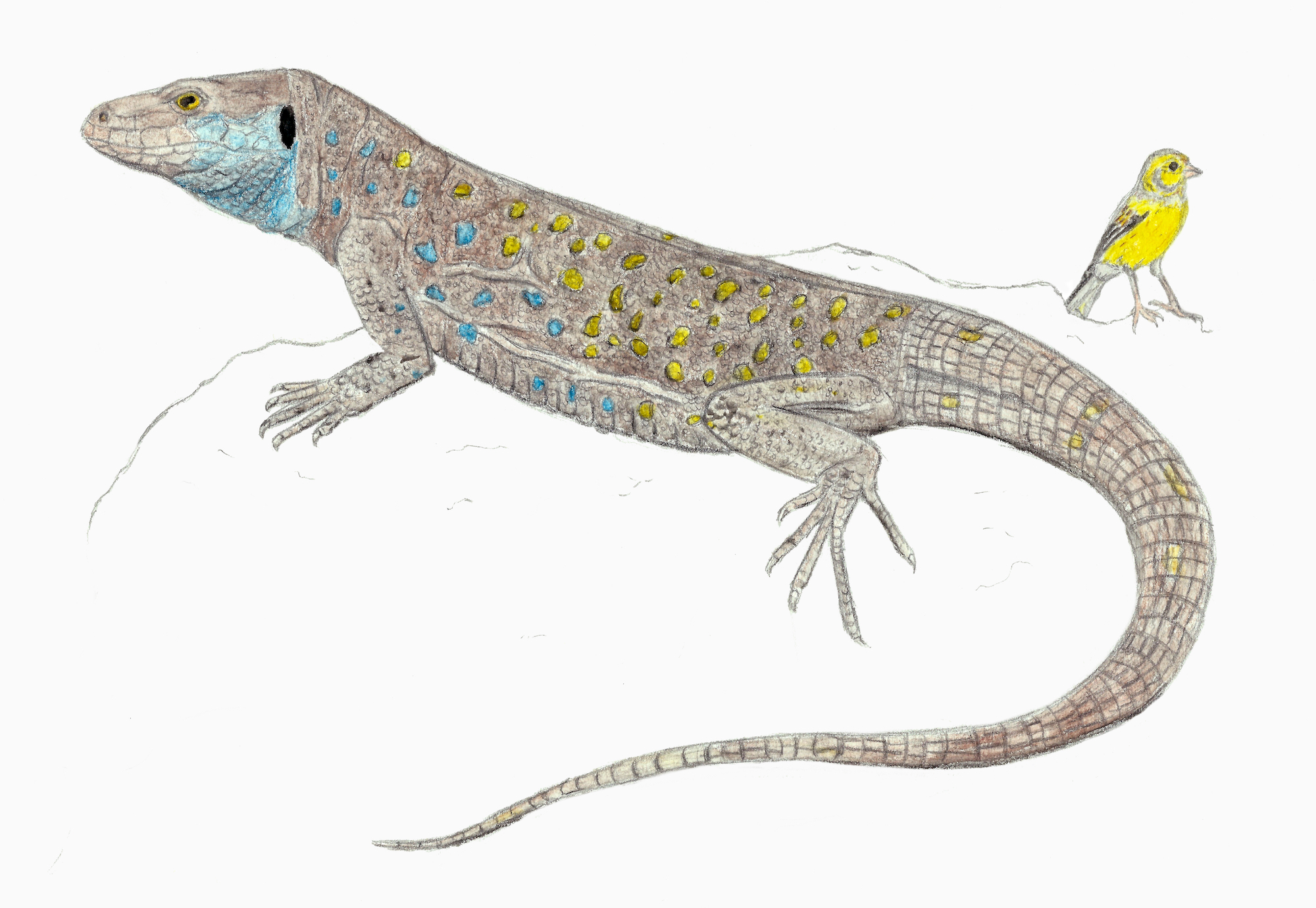 Life restoration of the Tenerife giant lizard (Gallotia goliath), a lacertid that lived in the island of Tenerife (Canary Islands) until the the 15th century.